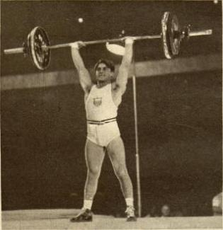 Anthony Terlazzo - photo from Olympic Games 1936